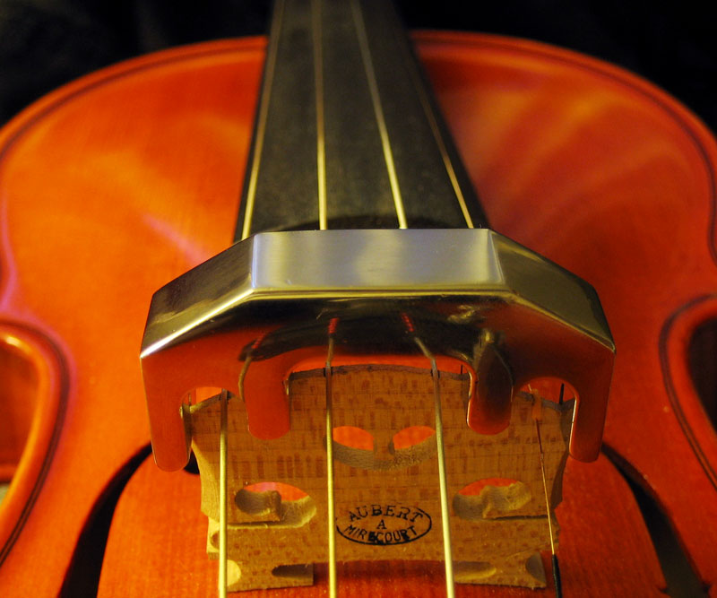 A violin metallic mute.